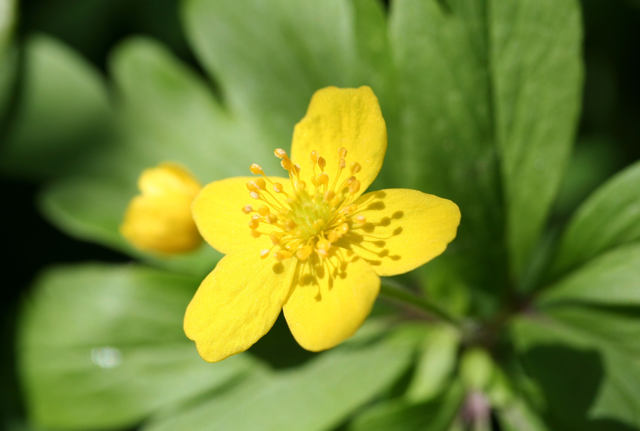 Anemone_ranunculoides Thijsses Hof, Bloemendaal, the Netherlands 17 april 2006